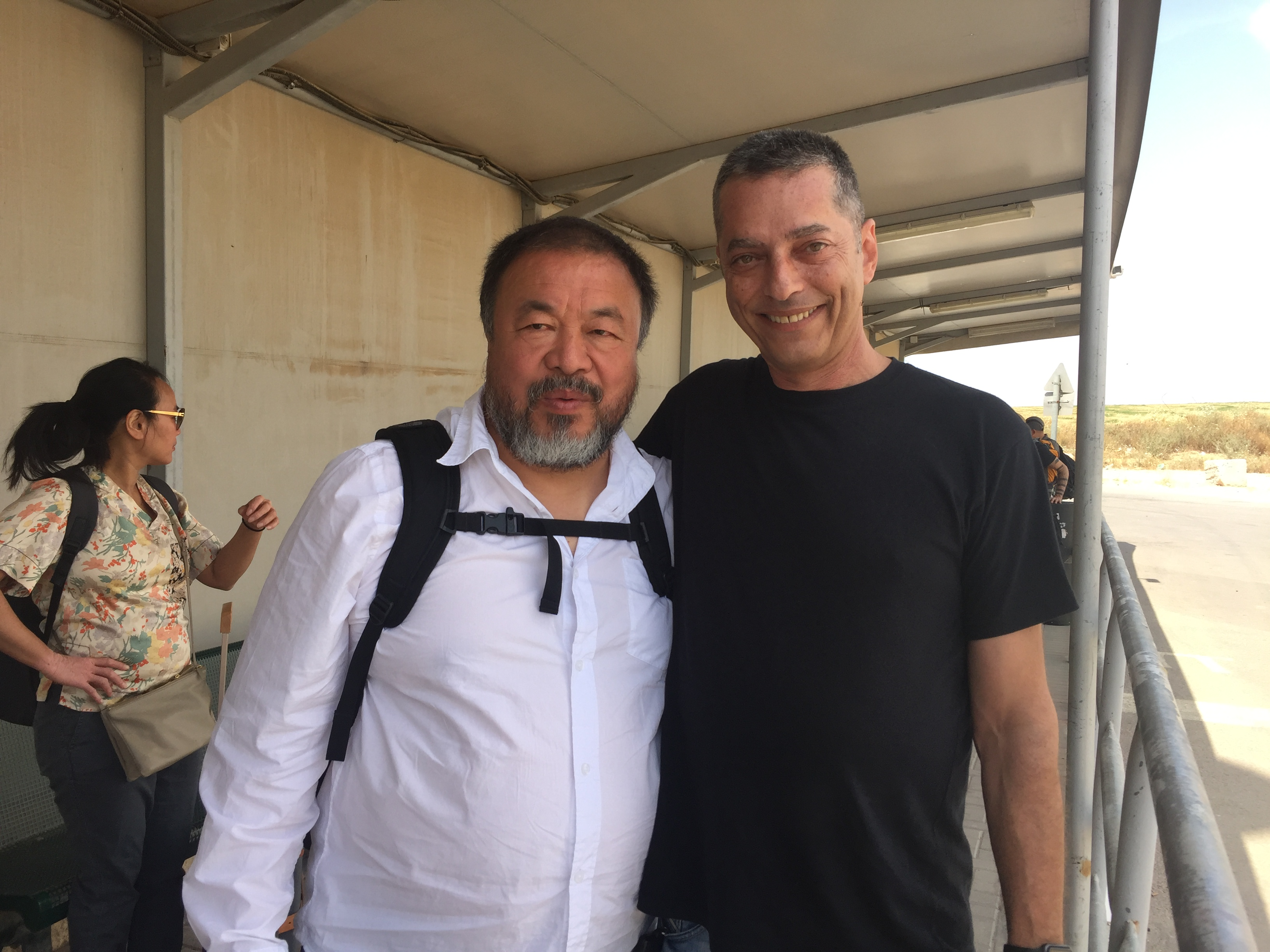 Ai Weiwei and Noam Shalev